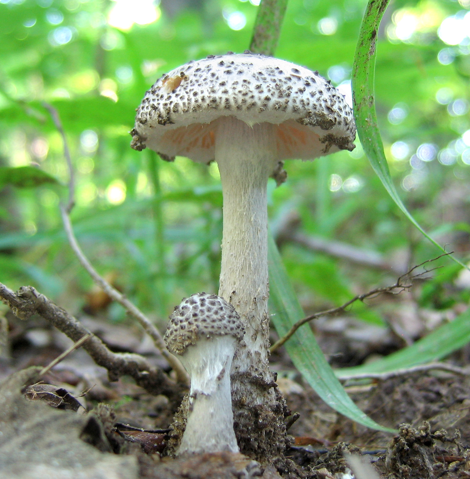 Amanita onusta (Howe) Sacc. Location: Montgomery County, Maryland, USA Observation Notes: These were growing right beside a trail near a creek. For more information about this, see the observation page at Mushroom Observer.